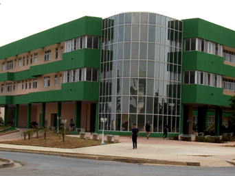 La Universidad de las Ciencias Informáticas (UCI) es un centro de estudios universitarios radicado en Ciudad de La Habana